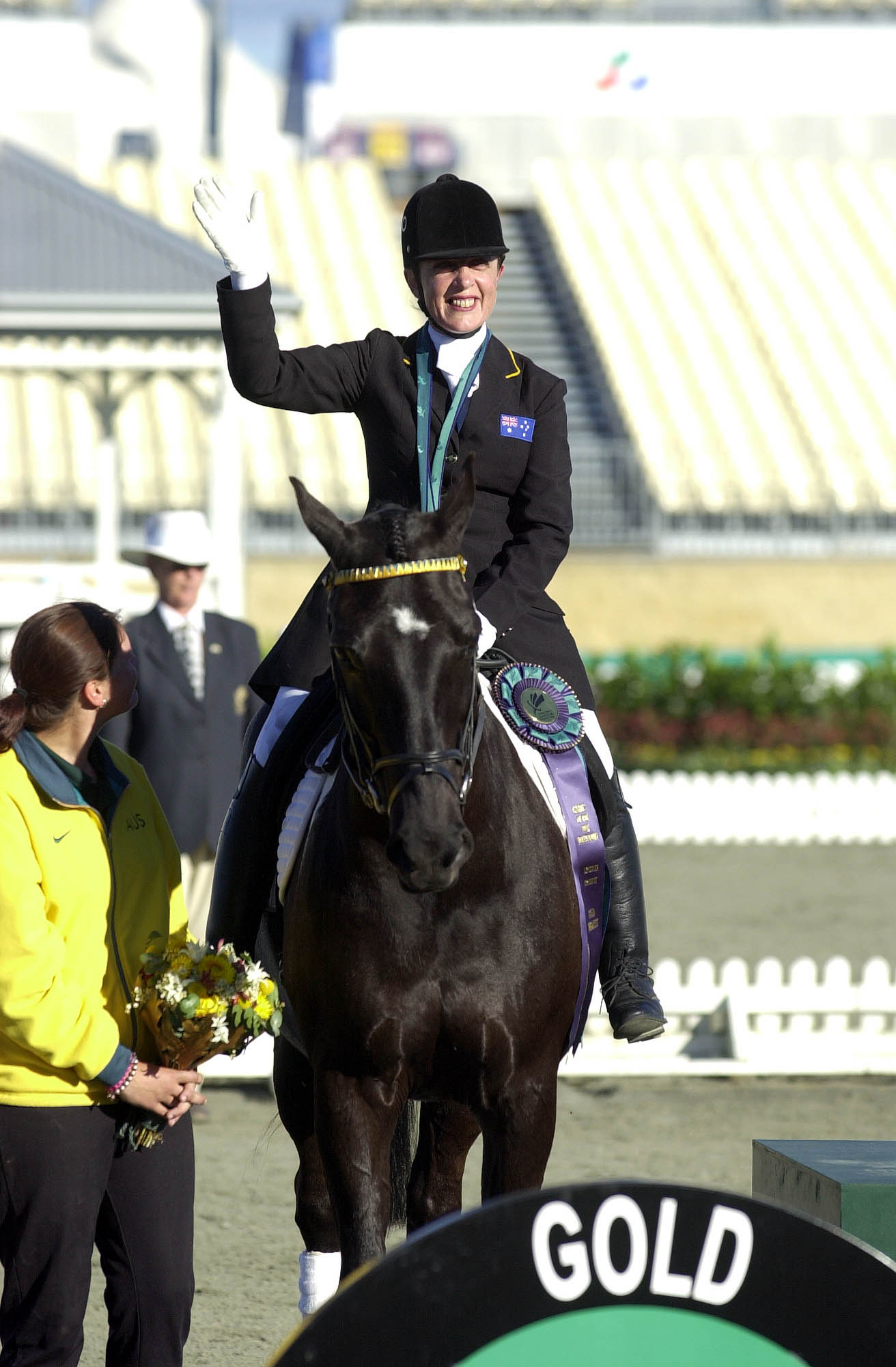 Australian equestrian Julie Higgins on the gold medal podium. She won gold in the 2000 Sydney Paralympic Games Individual Dressage Grade 3 competition.